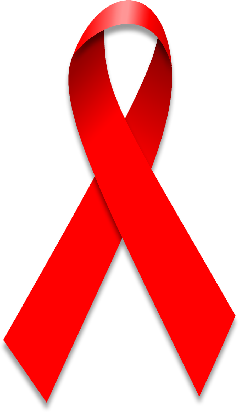 World AIDS Day Ribbon